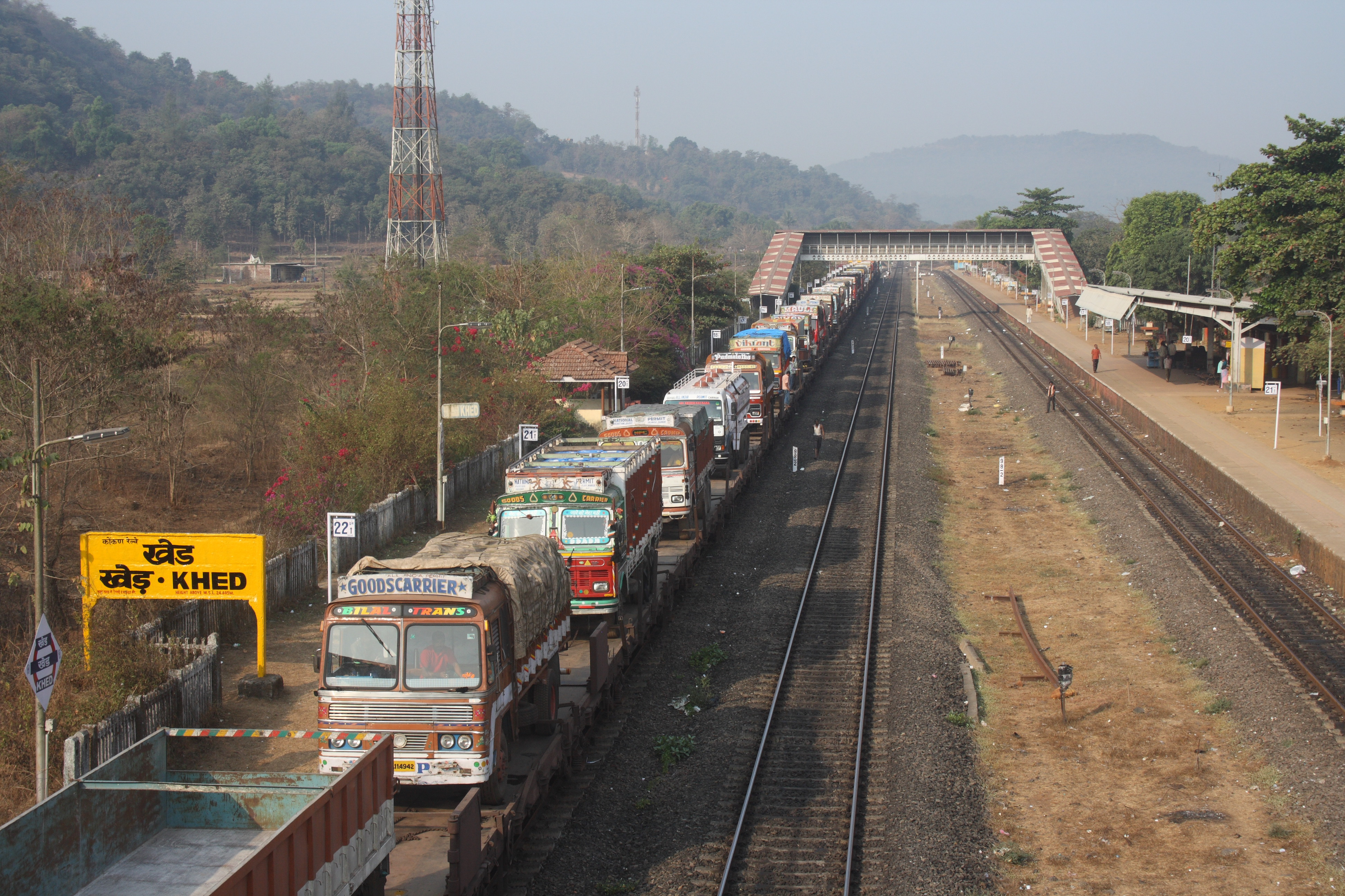 A Roro train in Khed railway station in India